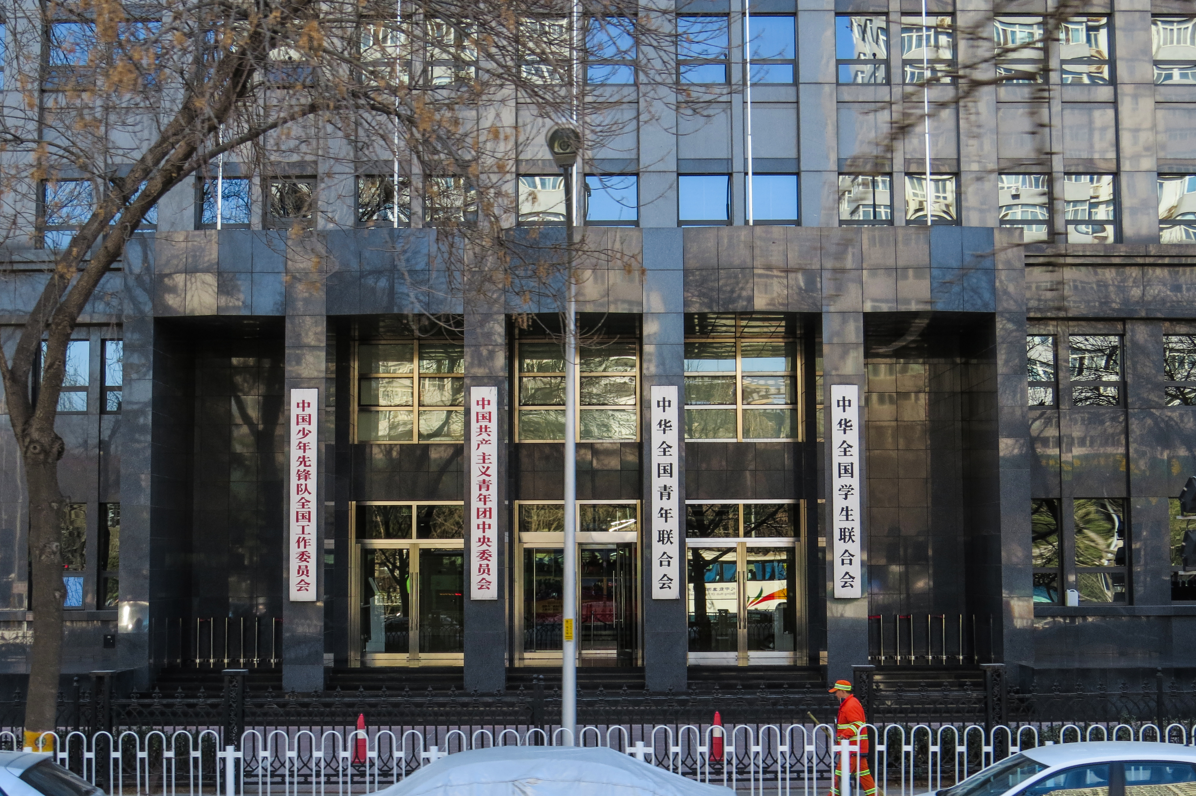 At 10 East Qianmen St, together with young pioneer committee.